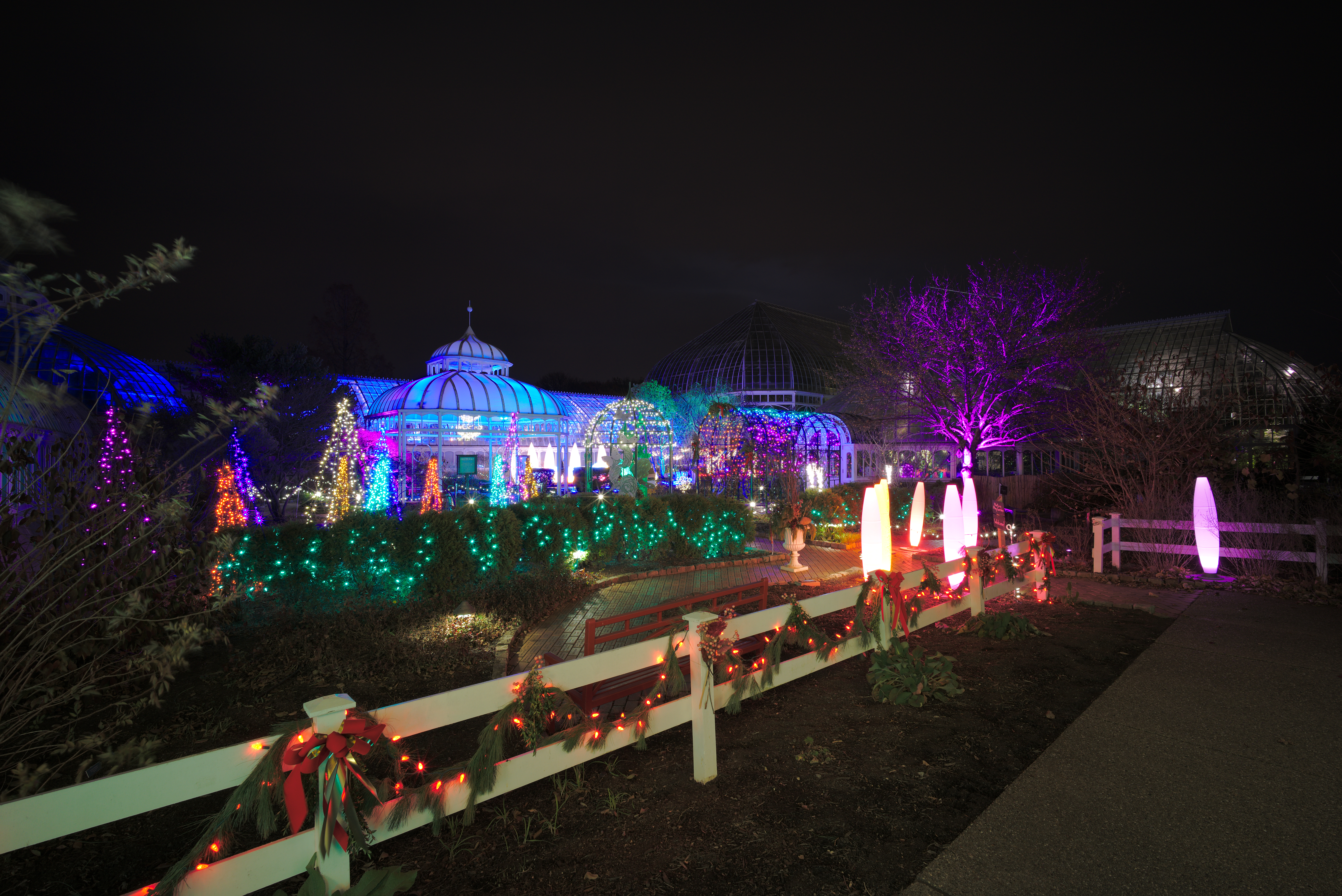 The Discovery Garden at the Phipps Conservatory and Botanical Gardens during the winter flower show of 2015.